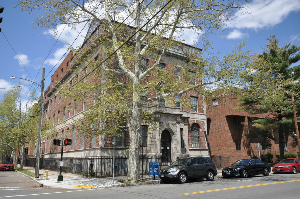 New Haven Jewish Home for the Aged, New Haven, CT. Modern wing to the right, historic early building on the left.